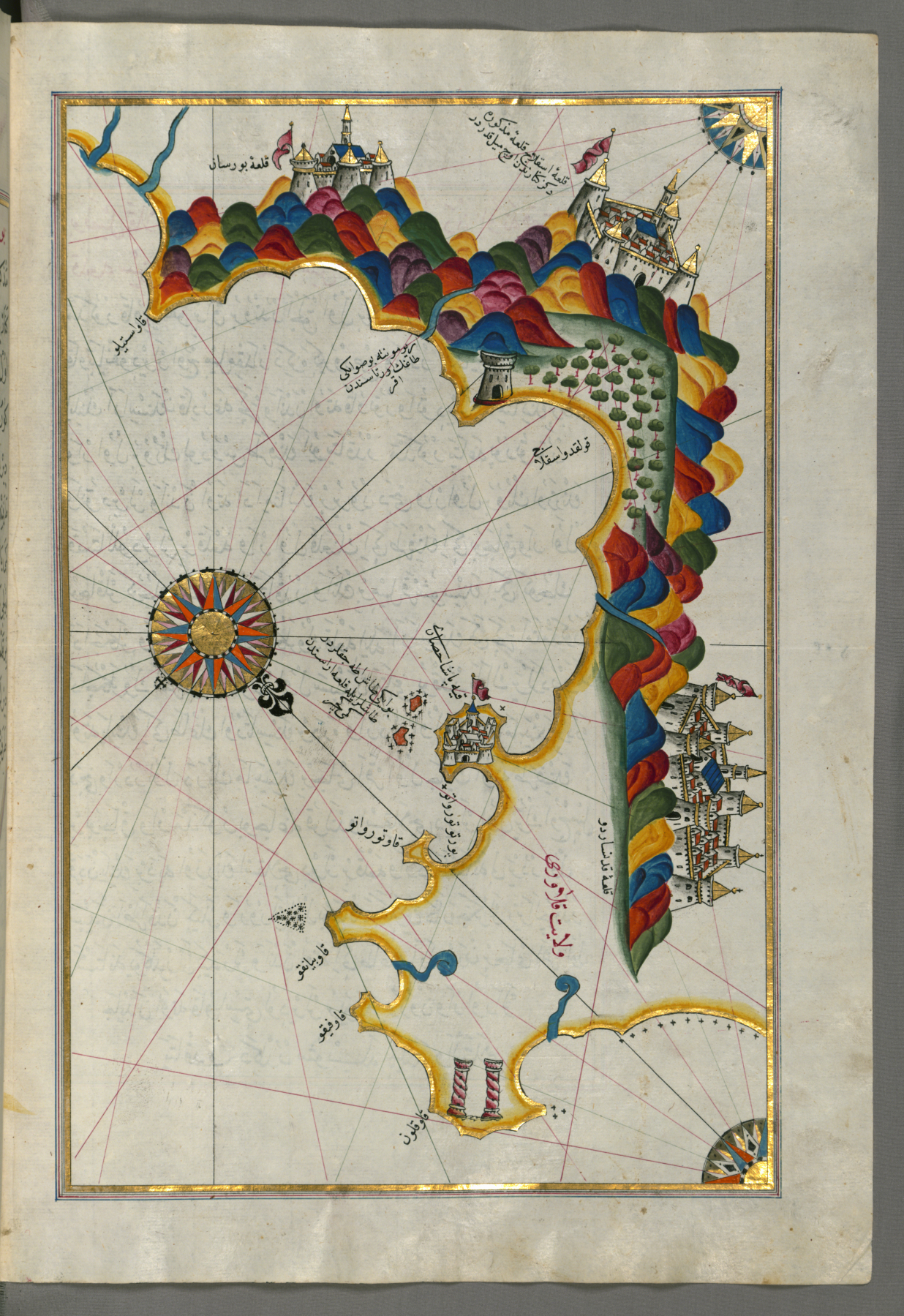 This folio from Walters manuscript W.658 contains a map of the Calabrian coast from Catanzaro to Siquillace (Isqilaj).